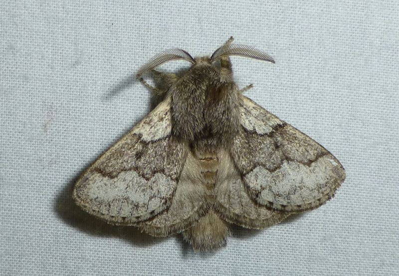 Trichiura crataegi, male. Location: The Netherlands - Bargerveen - Midden